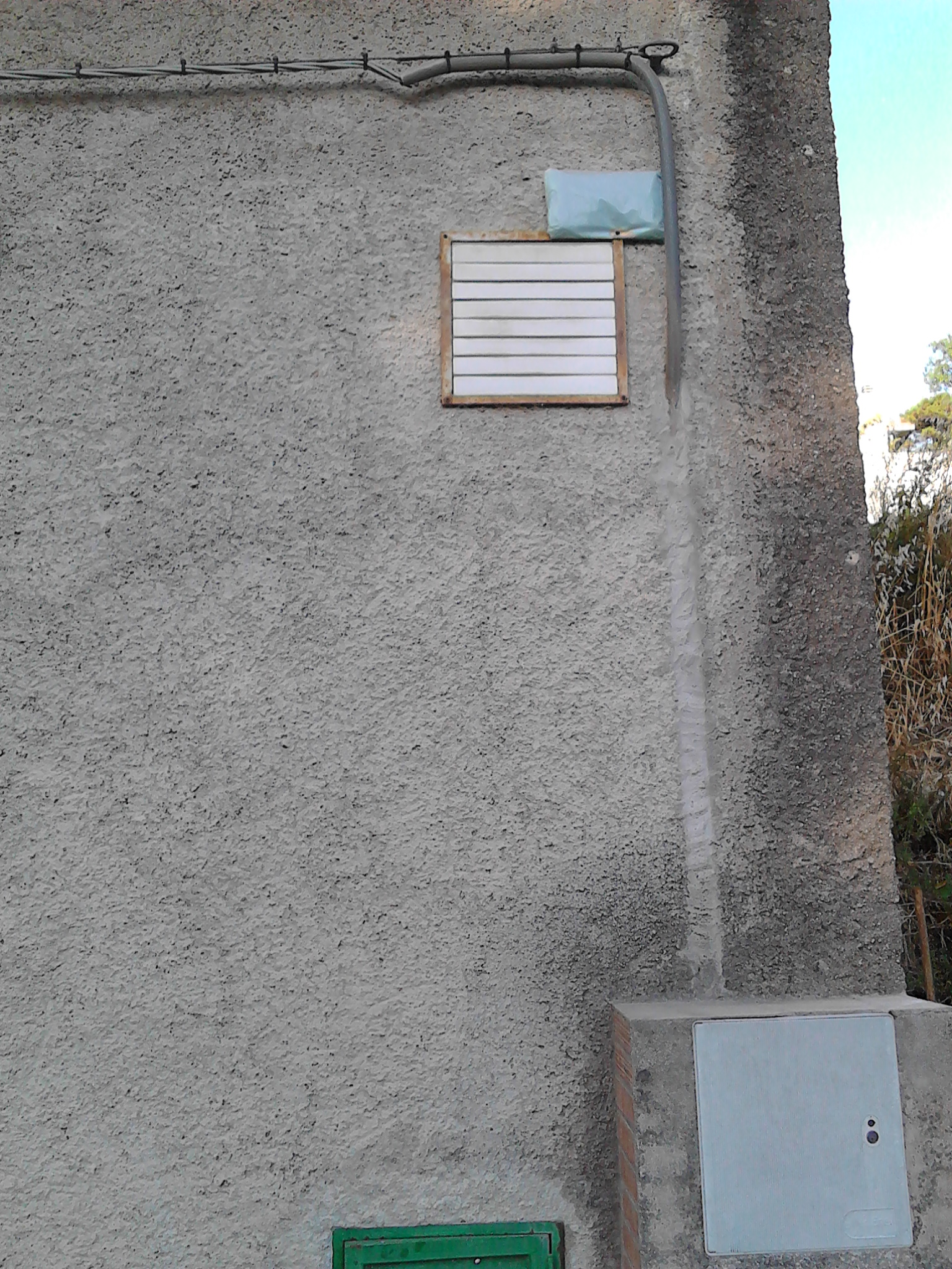 Gravity damper